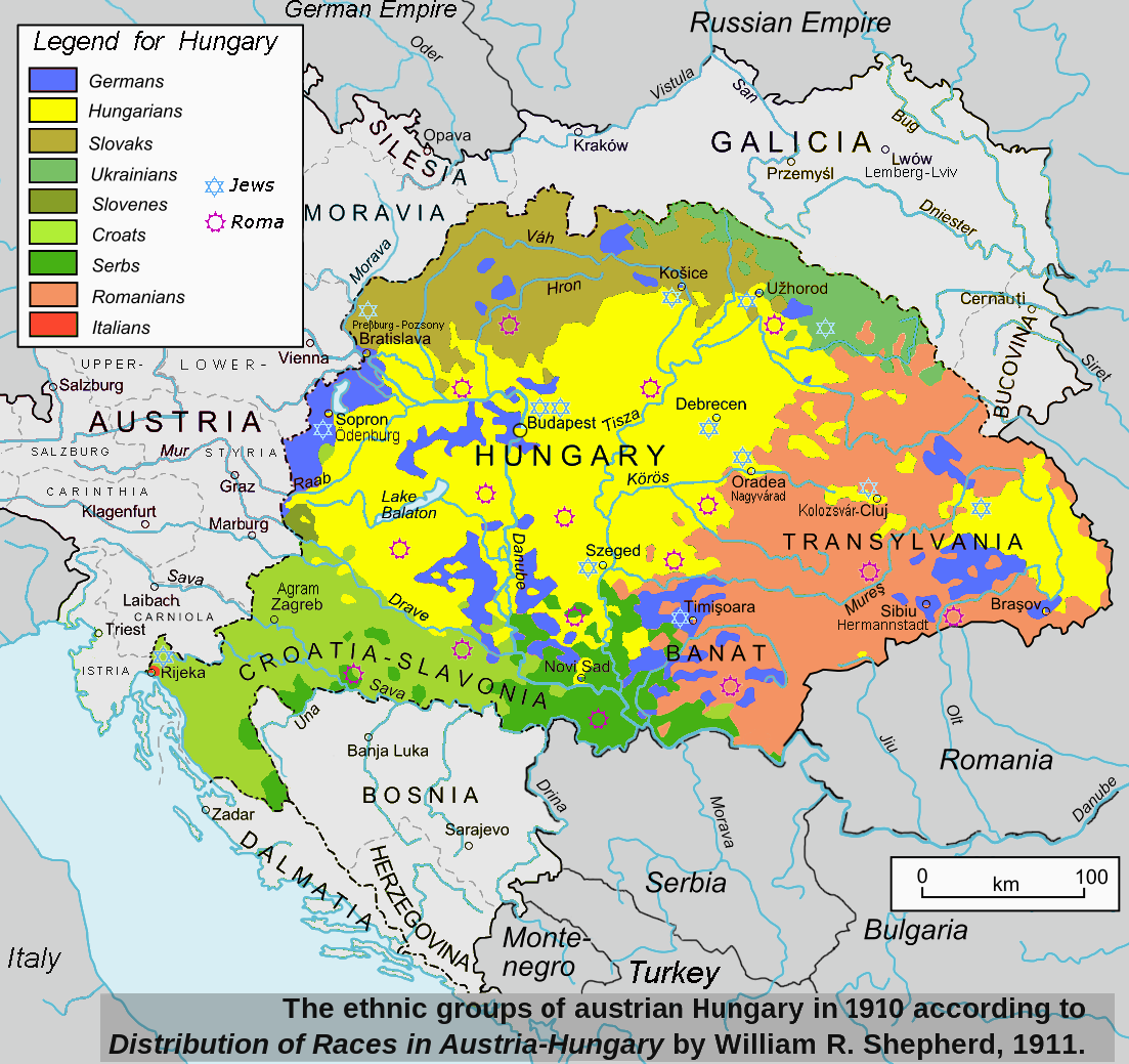 Derivative map since A. Scobel, Andrees Allgemeiner Handatlas, ed. Velhagen & Klasing, Bielefeld & Leipzig, 1908 and since Andrei Nacu's File:Austria Hungary ethnic.svg (only Hungary).